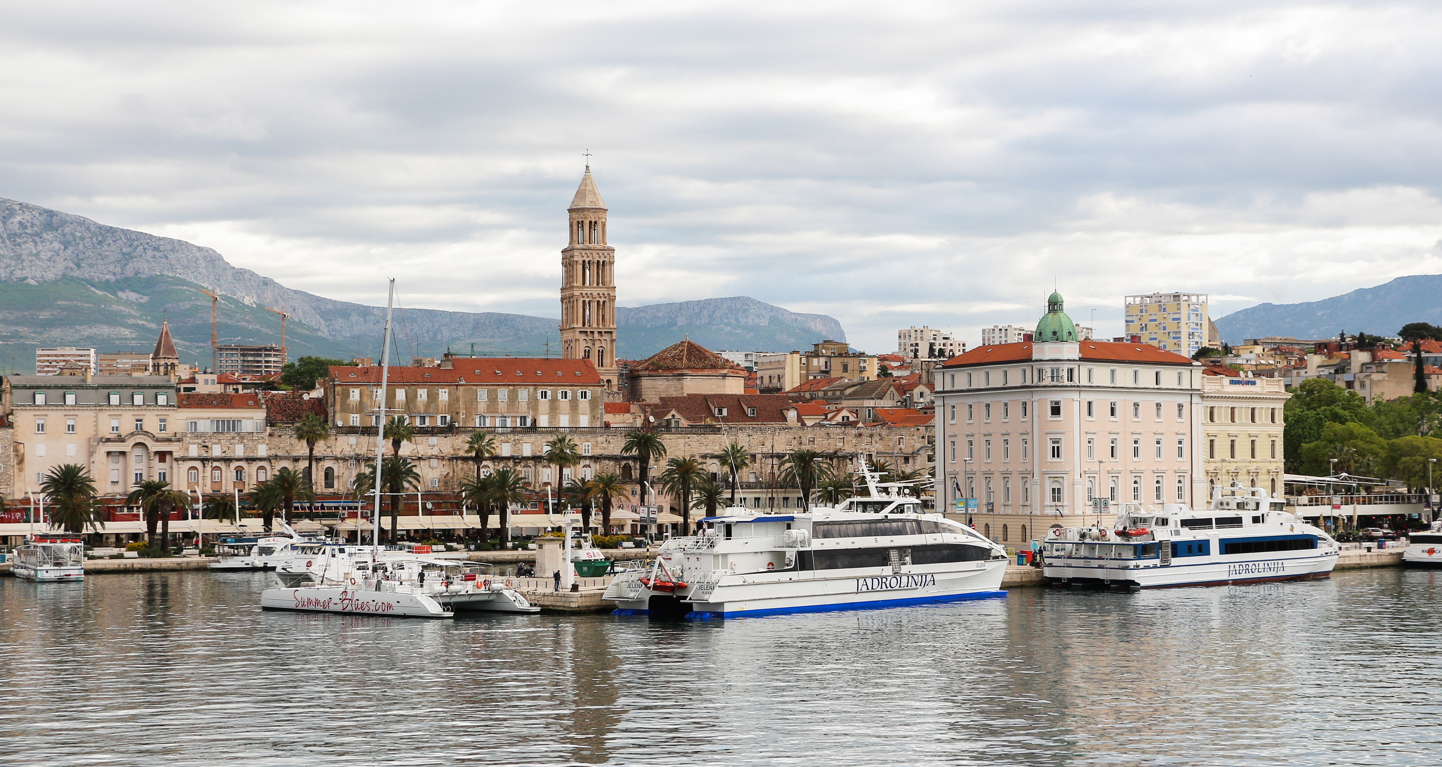 View of Diocletian's Palace, Split, Croatia